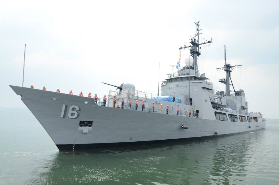 A Gregorio del Pilar class frigate, BRP Ramon Alcaraz (PF-16).